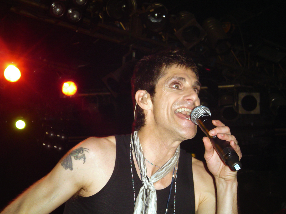 Perry Farrell performing in London Astoria